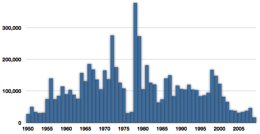 Fisheries recorded capture of Trachurus trecae from 1950 to 2009. Data source FAO fisheries